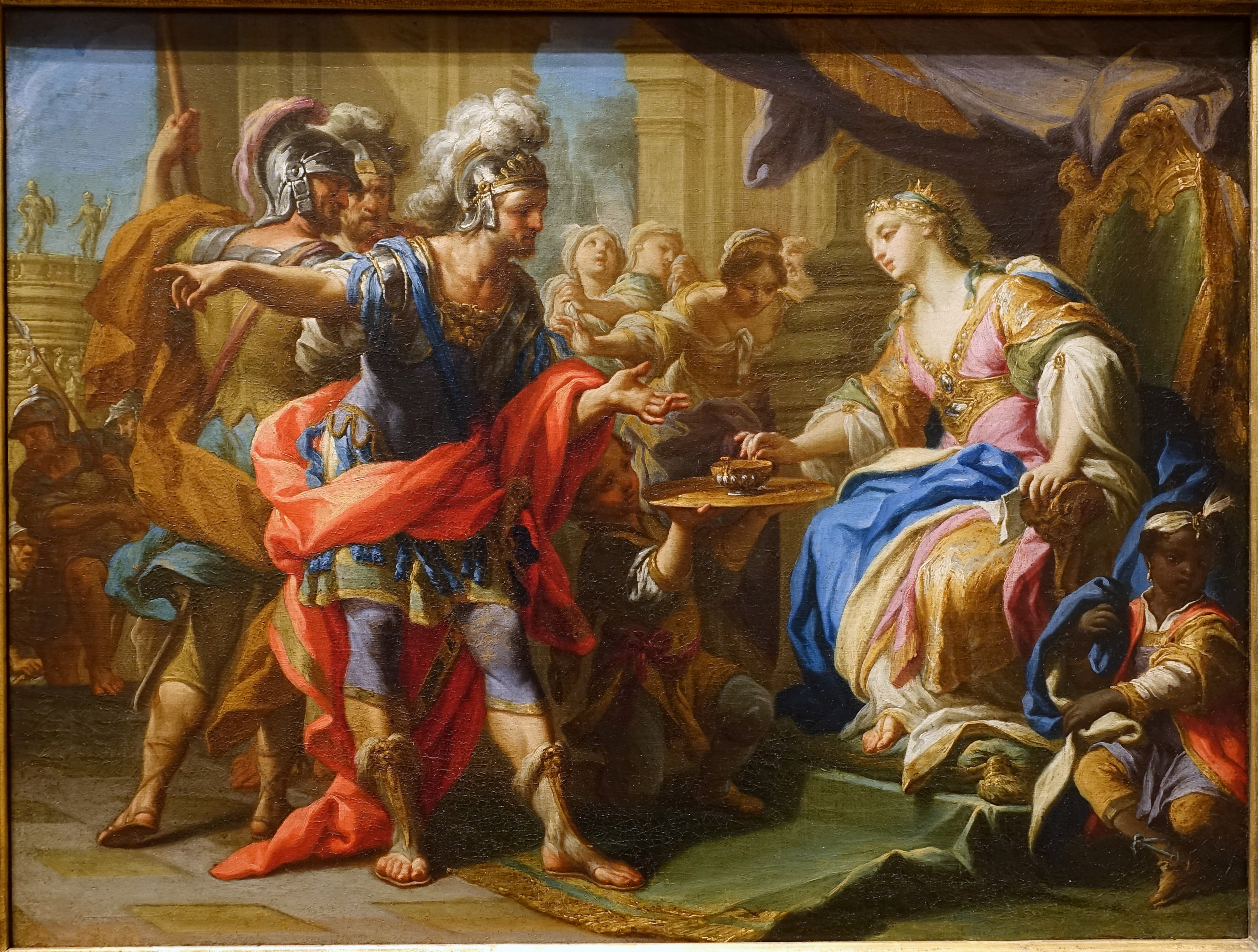 Exhibit in the Blanton Museum of Art - Austin, Texas, USA. This work is old enough so that it is in the public domain.